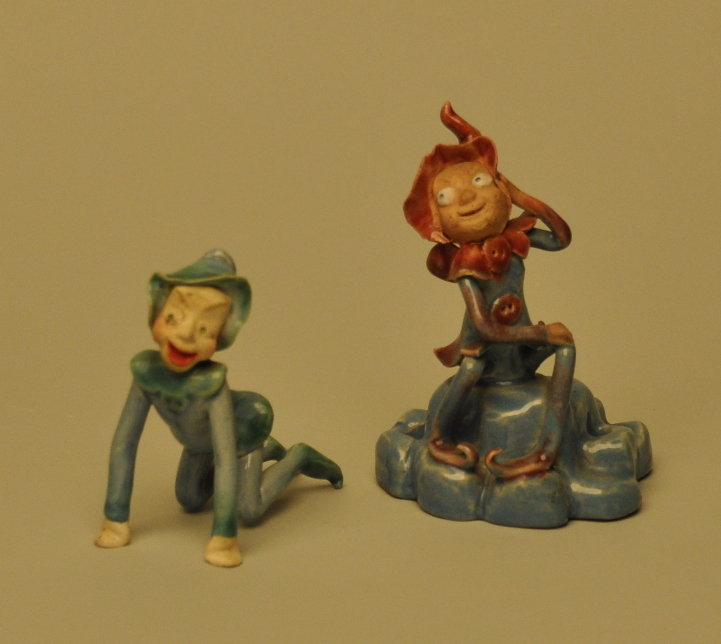 Millicent Andrews' Drew Pixies figurines